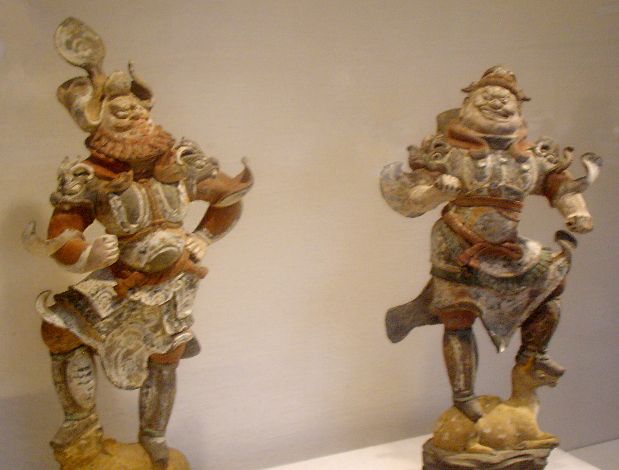 A pair of Chinese Buddhist guardian statues made of earthenware and pigments, from the Tang Dynasty (618–907 AD), dated to the late 7th to first half of the 8th century. The caption for these artworks at the Metropolitan Museum of Art states: The foreign facial features of this pair of brilliantly sculpted guardian figures evidence the strong Western presence in Tang-dynasty China. Originating in the Lokapala deity of the Buddhist religion, which came to China from the West, this type of armored tomb guardian had an apotropaic function in Chinese burials.